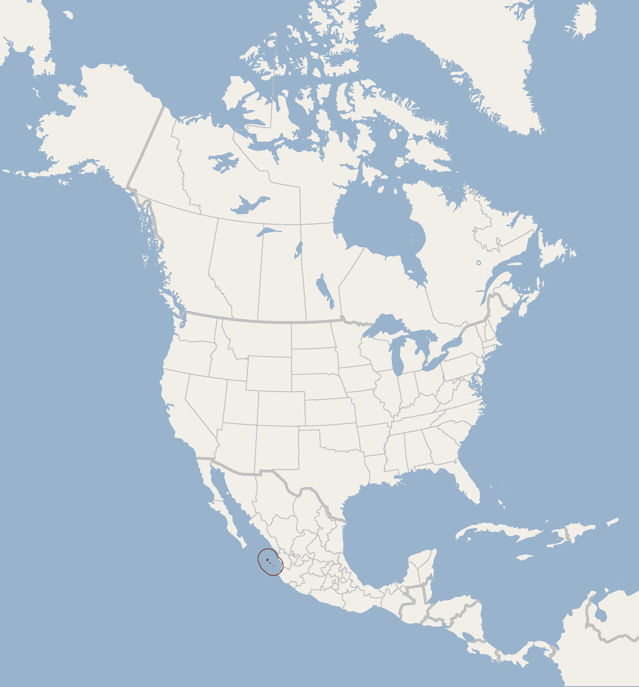 Geographical distribution of Myotis findleyi according to Museum specimens.